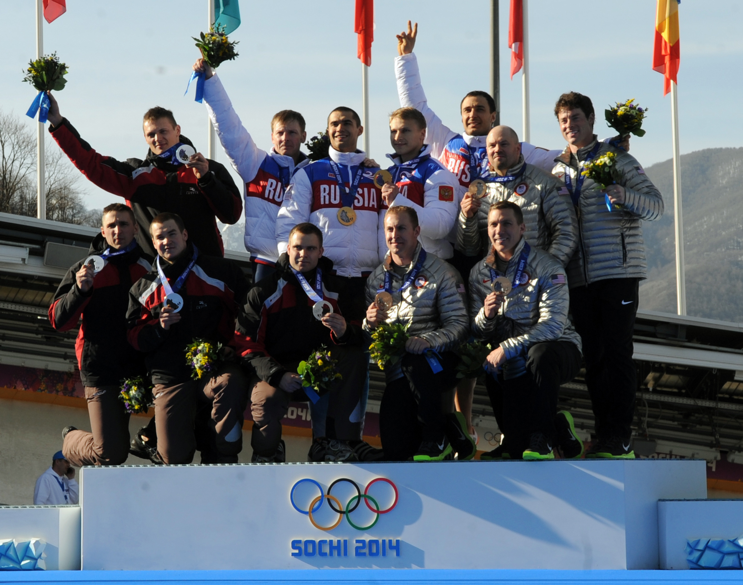 Sochi 2014 Olympic Winter Games four-man bobsled medalists watch Team USA step onto the podium to receive their bronze medals, from far right to left: Capt. Chris Fogt of the U.S. Army World Class Athlete Program, Steve Langton, Curt Tomasevicz and former WCAP bobsledder Steven Holcomb. The gold medalists from the host Russian Federation are in the center, and the silver medalists from Latvia are on the left.